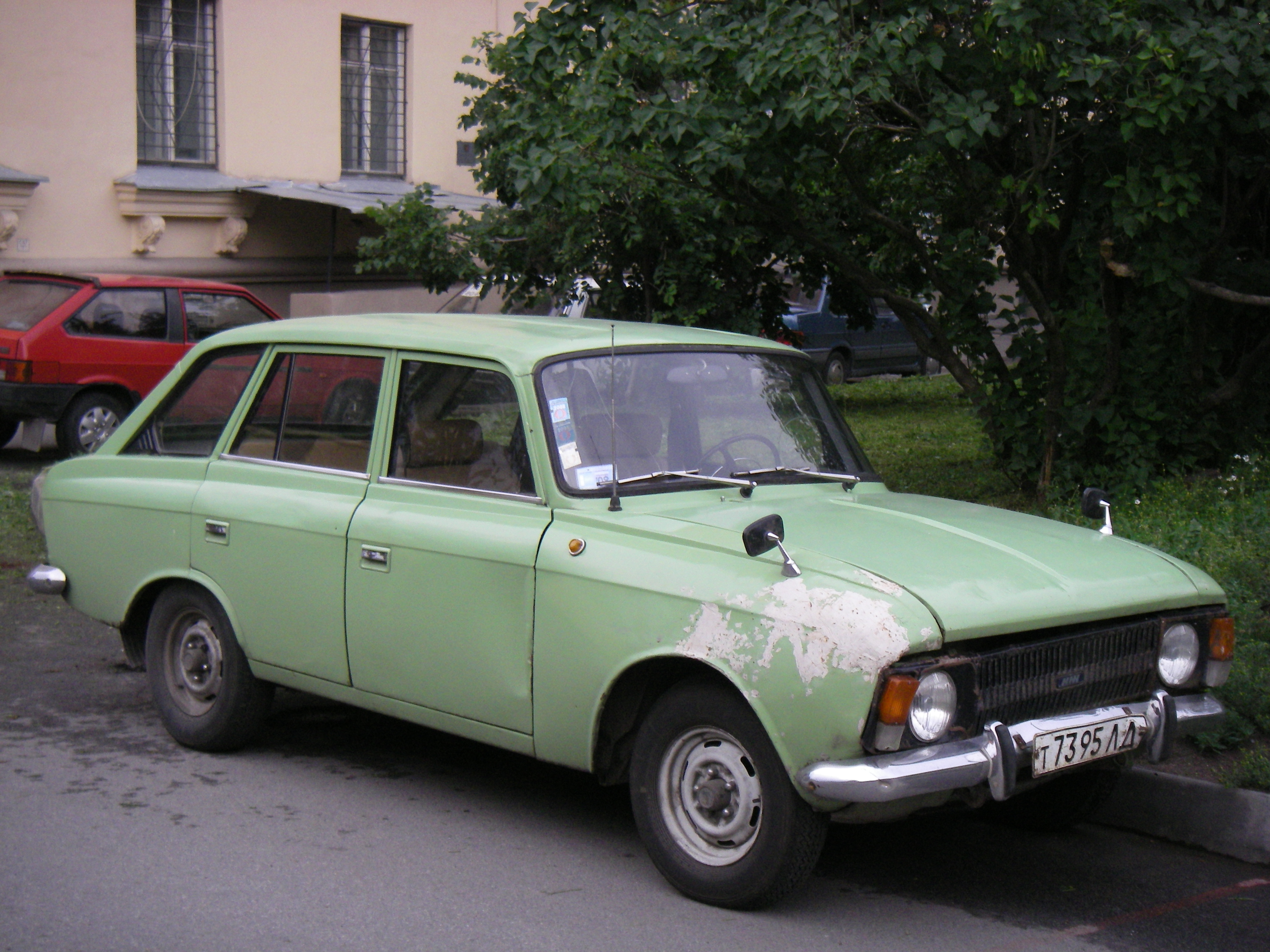 IZh-2125